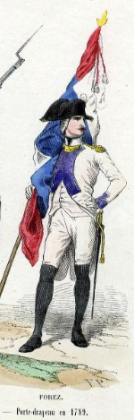 Uniform of an Ensign of the Régiment de Forez